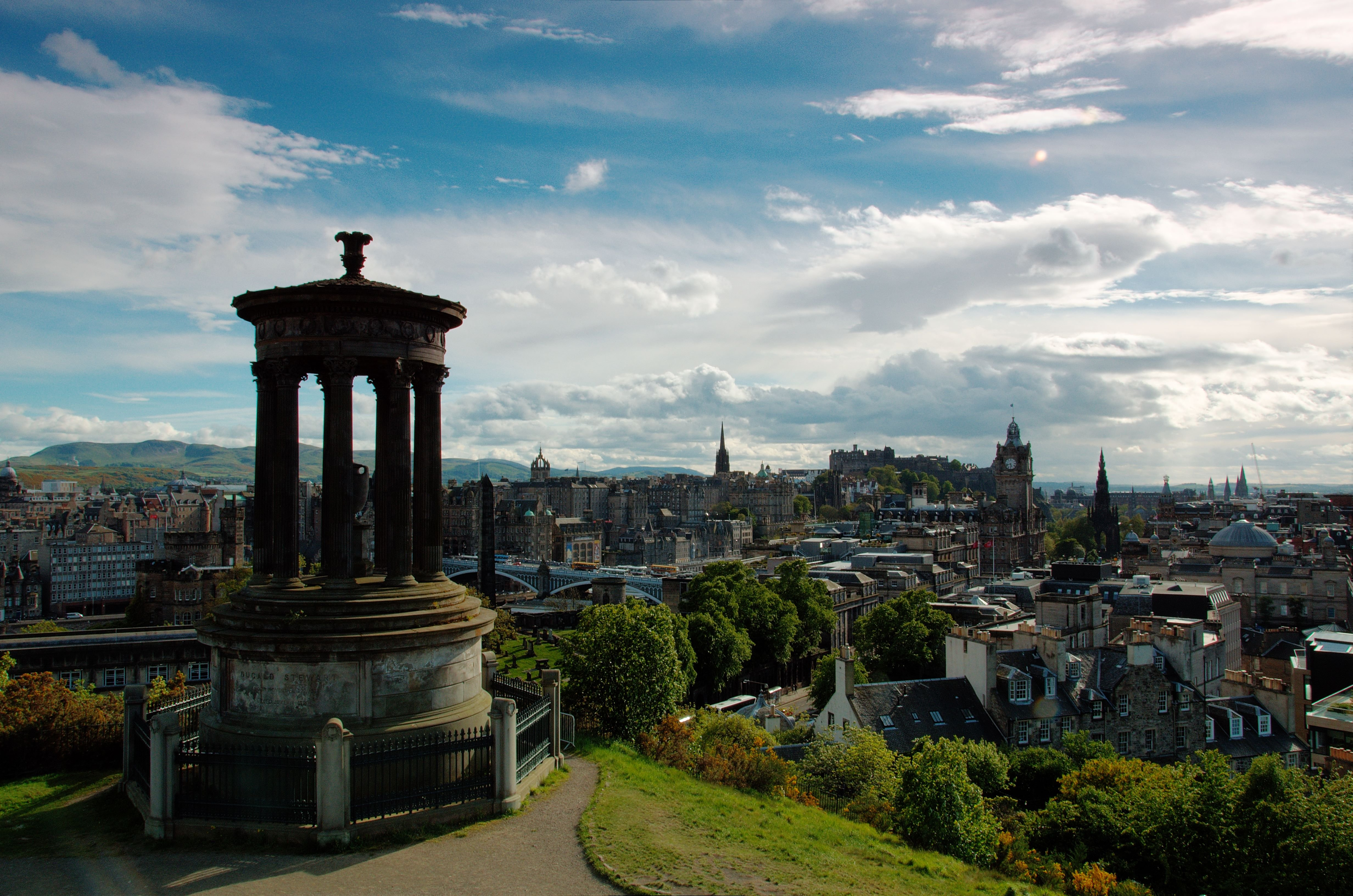 View from Calton Hill